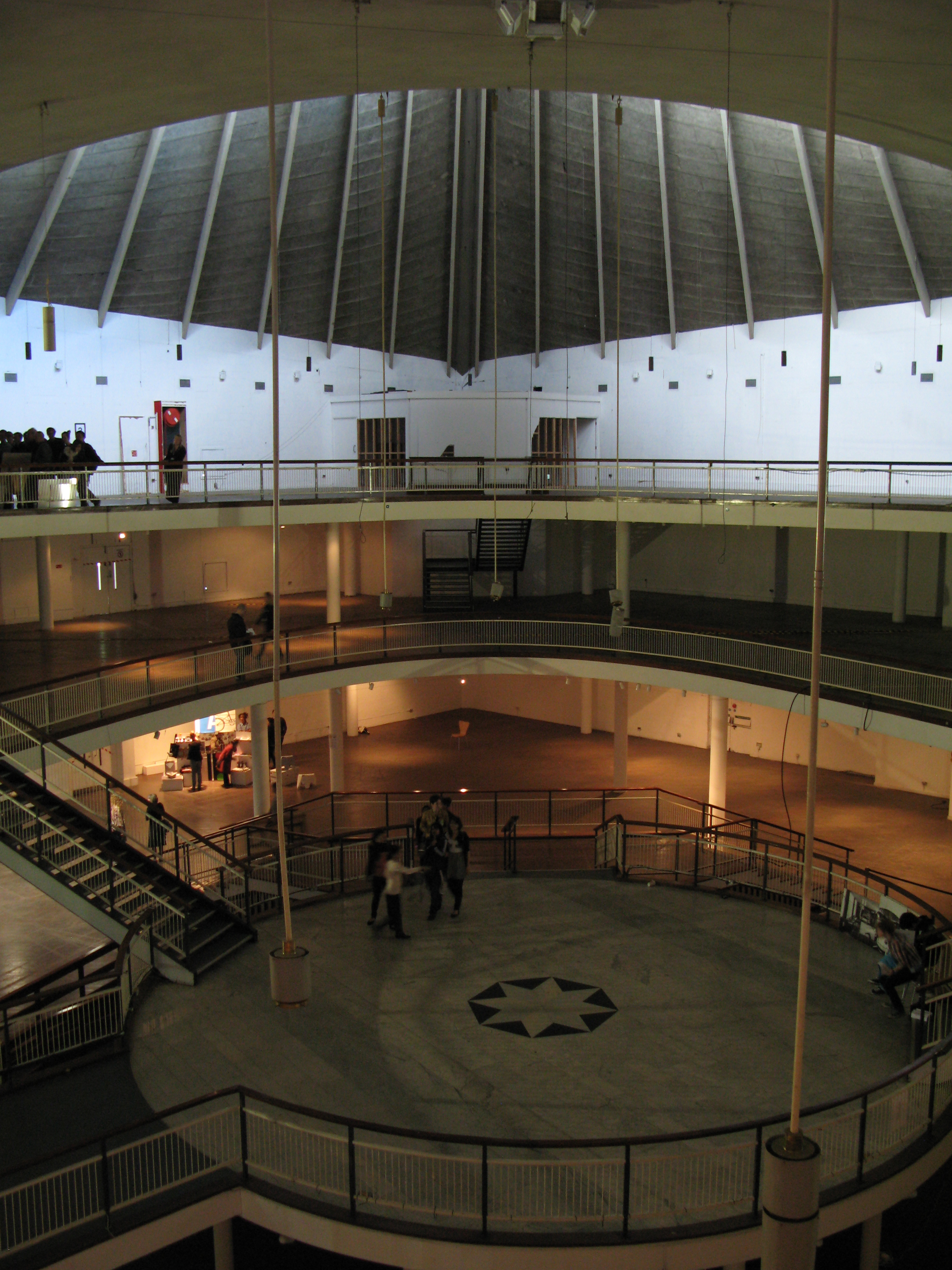 View of the inside of the old Commonwealth Institute building.